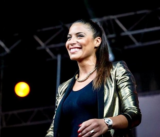 Zaho concert